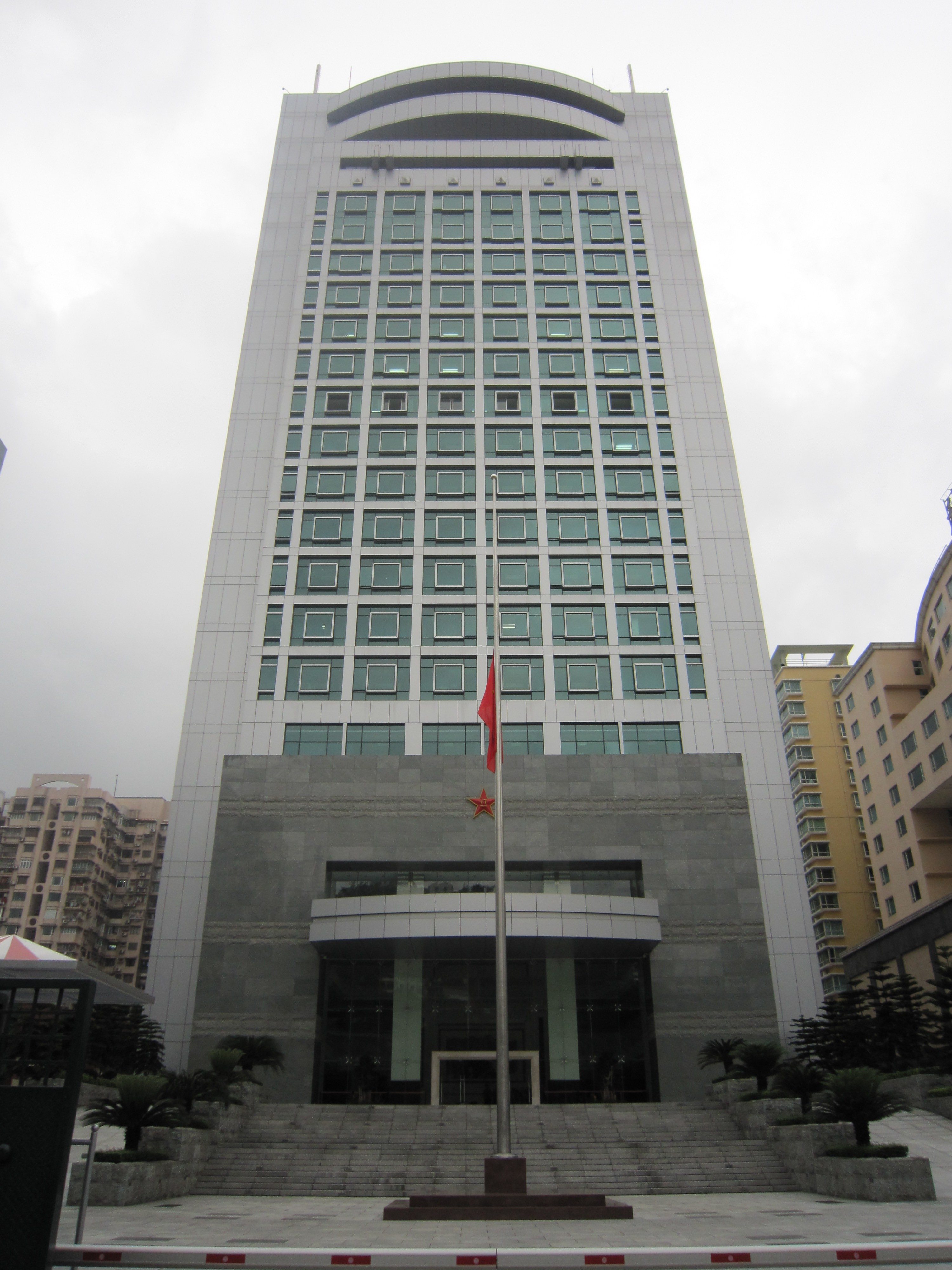 People's Liberation Army Macau Garrison Headquarter Office